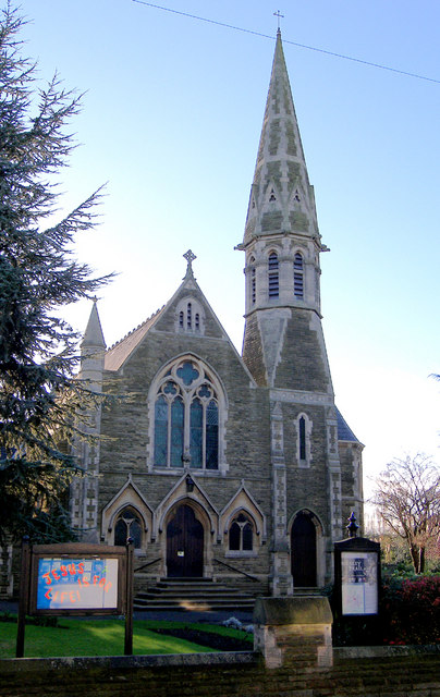 Wesley Memorial Church, High Street, Epworth, Lincolnshire. Designed by Charles Bell of Grimsby and completed in 1889.